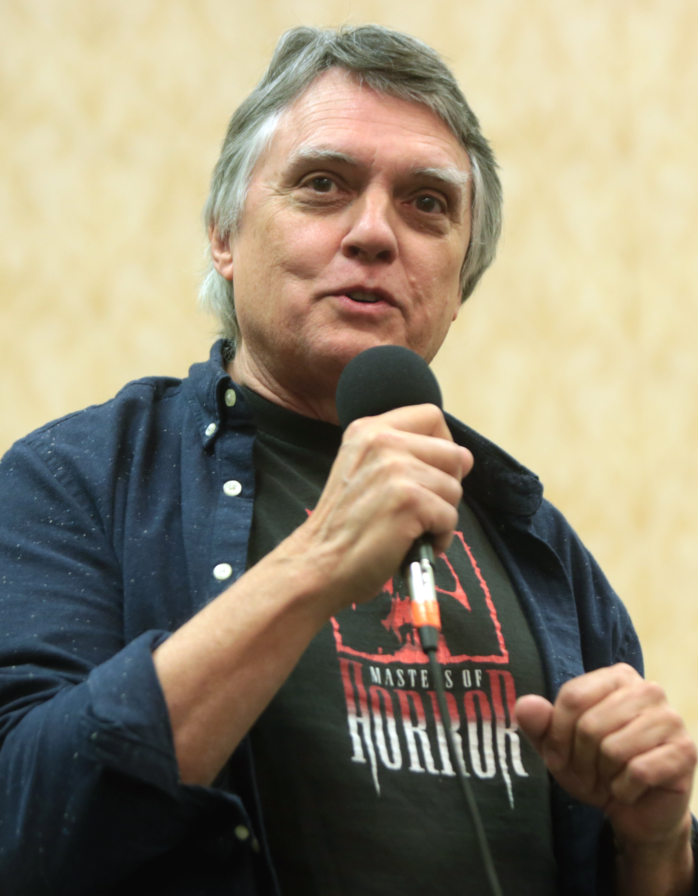 William Malone at an event in Tucson, Arizona.